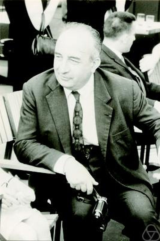 Pierre Lelong, Montreal 1967